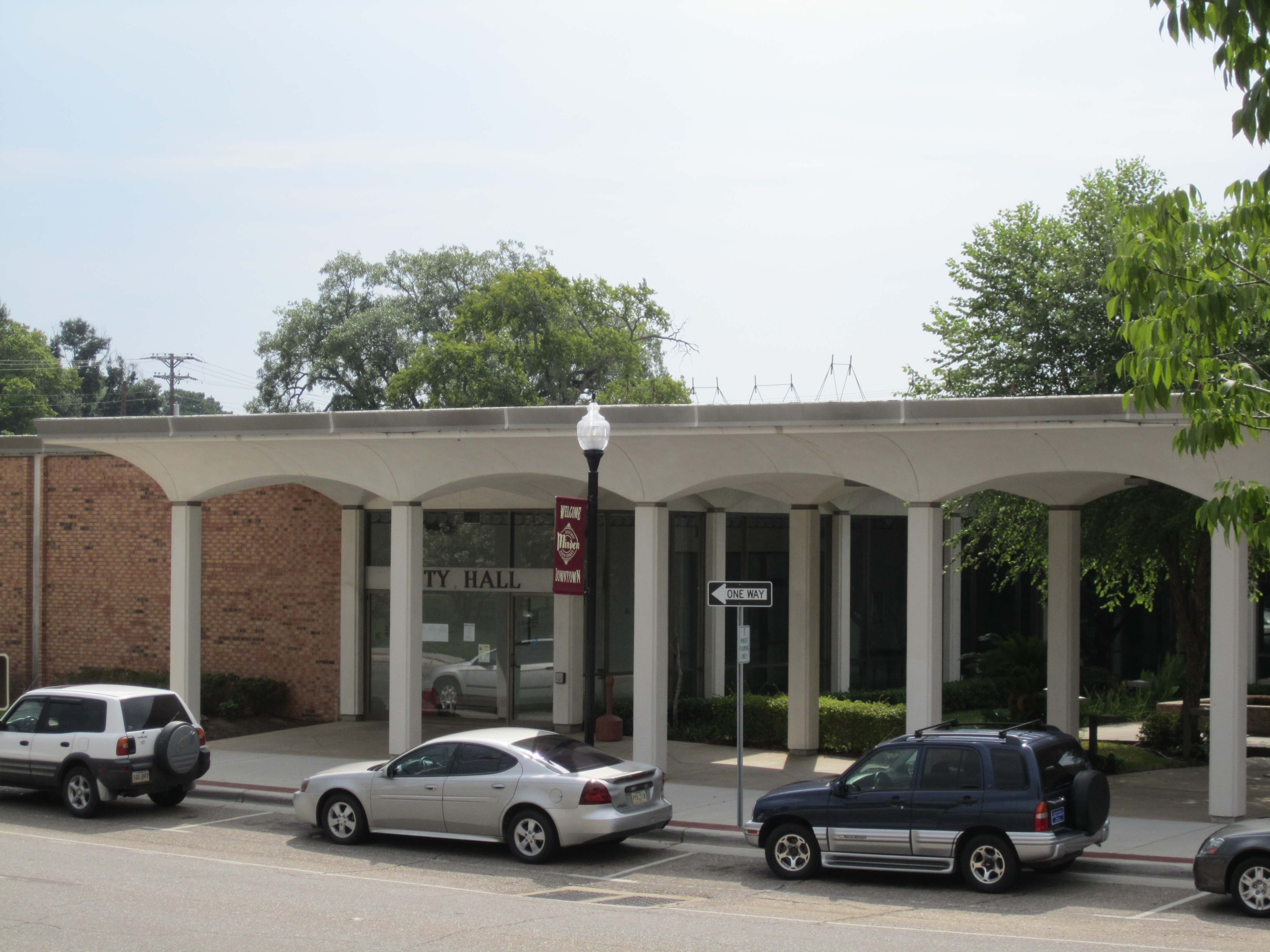 I took photo in Minden, LA, with Canon camera.